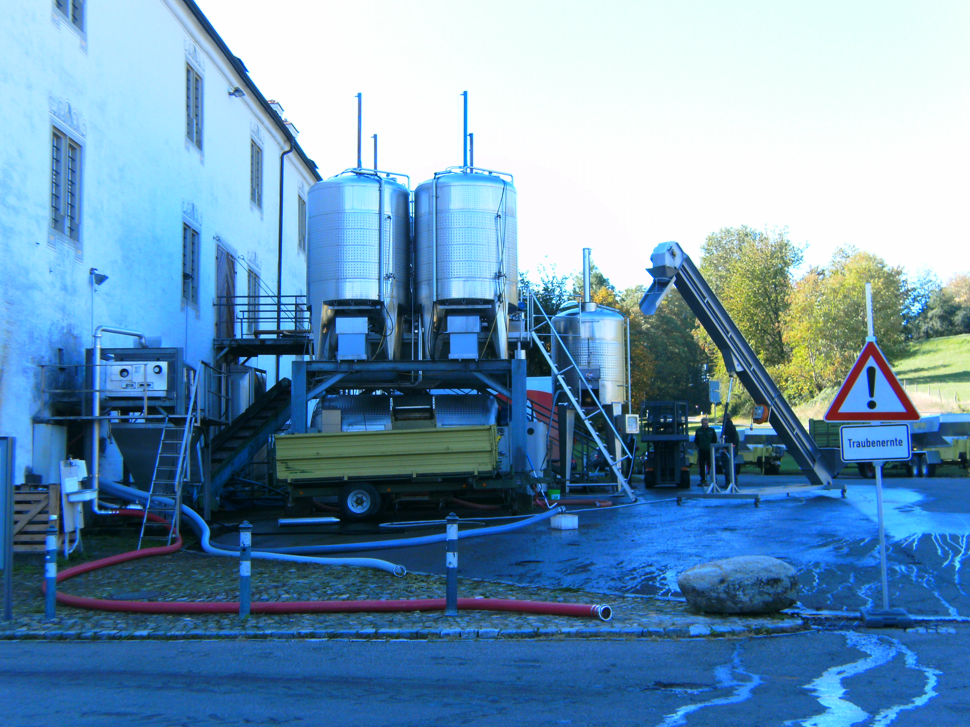 Salem, Germany, Weingut Markgraf von Baden (vineyards and winery), Schloss Salem: Processing of winegrapes.